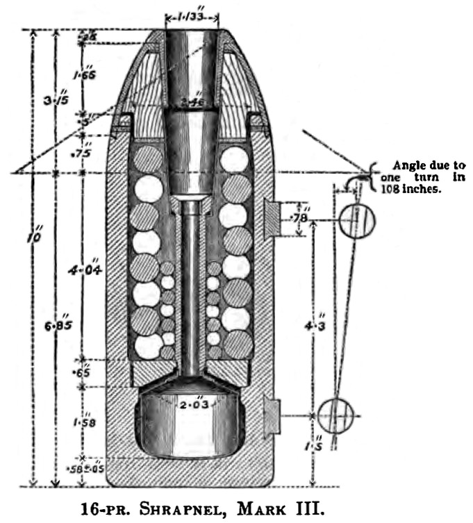 Diagram of Mk III shrapnel shell for British RML 16 pounder field gun. Contained lead-antimony balls : 28 balls of 18 / lb (25.2 grams) and 56 balls of 84 / lb (5.4 grams). Contained 1½ oz gunpowder charge in base to blow bullets out of shell. Weight of shell filled but not fuzed : 17 lb 14½ oz (8.124 kg).